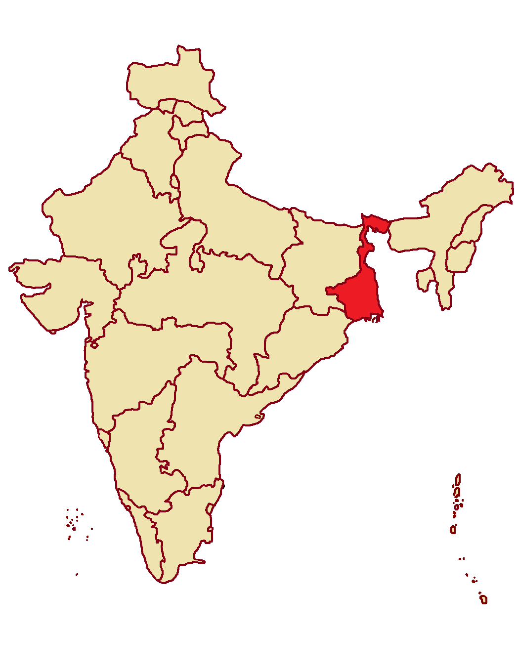 States and Union Territories of India, as of 1964-1965, i.e. between the creation of the state of Nagaland in 1963 and the Punjab Reorganization Act, 1966. Map does not include territories claimed by India but controlled by other countries. Borders not necessarily to scale. Based on File:States_of_India_(1964).png